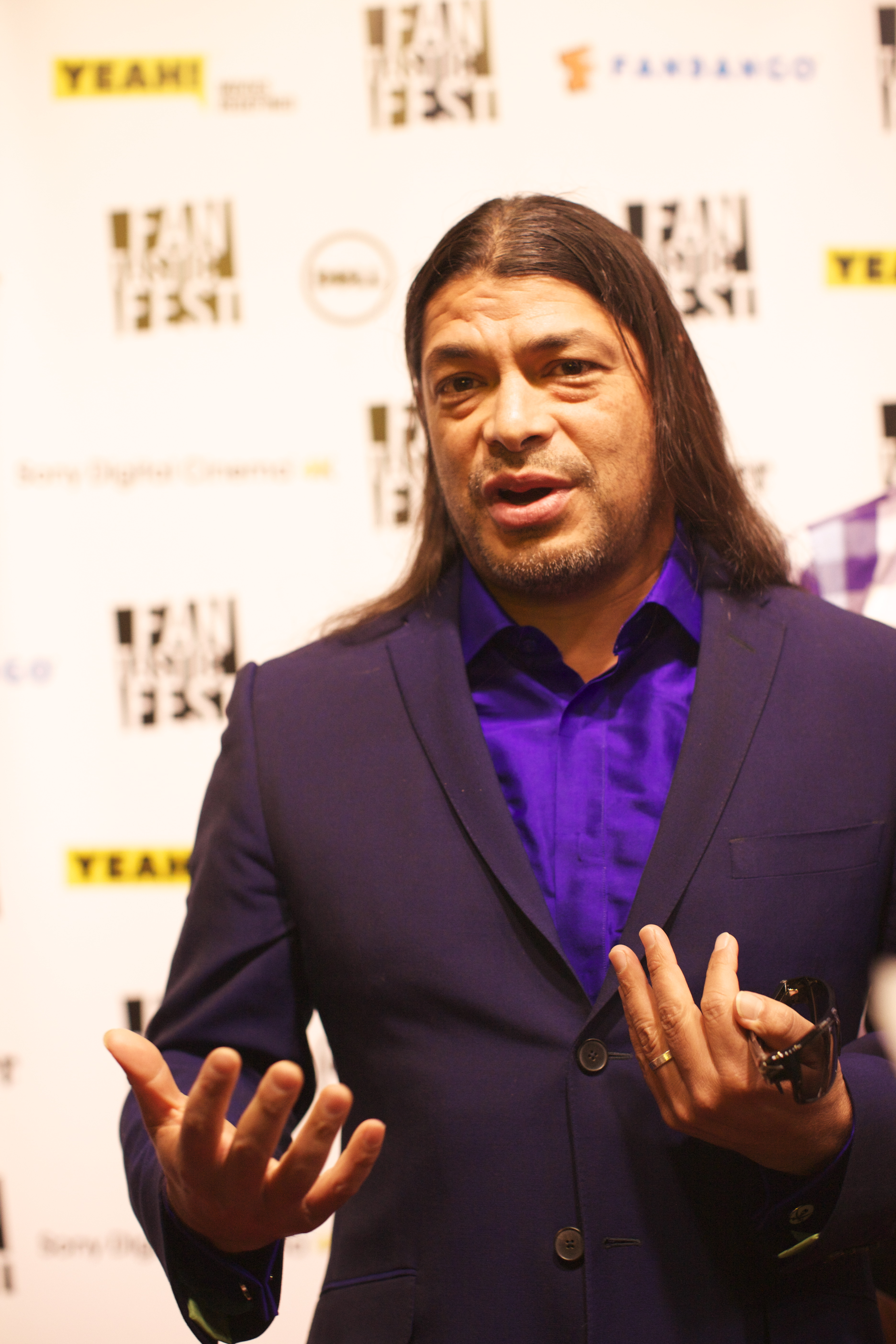 Robert Trujillo at the 2103 Fantastic Fest held in Austin, Texas, September 25, 2013